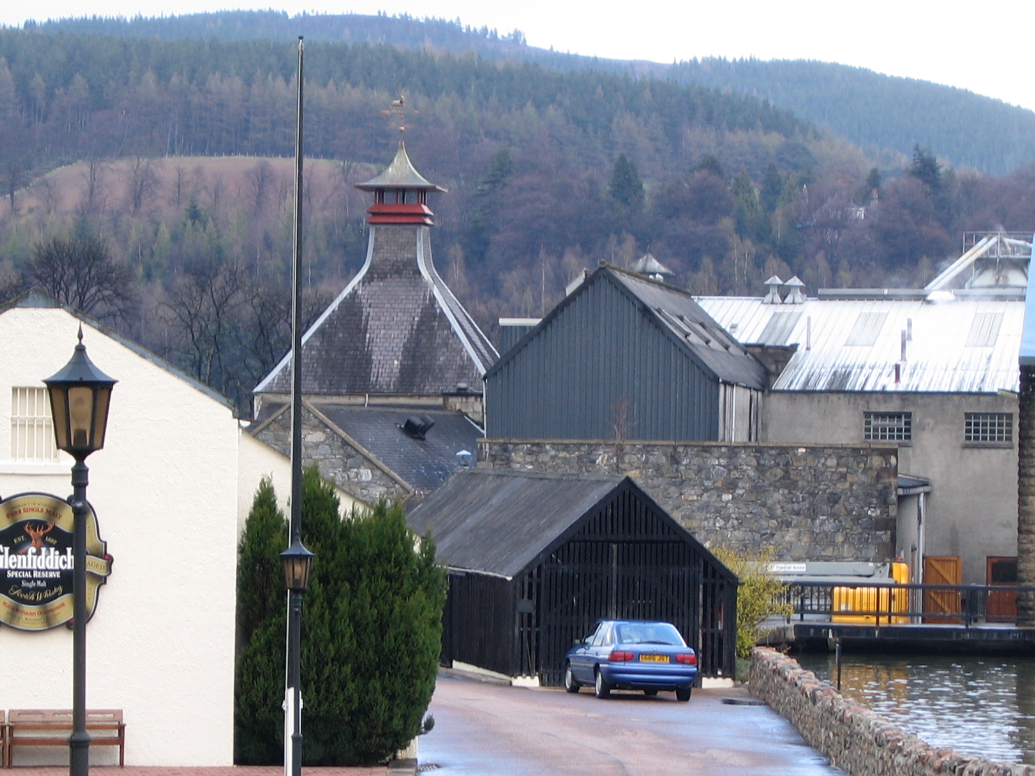 Glenfiddich Distillery in Scotland